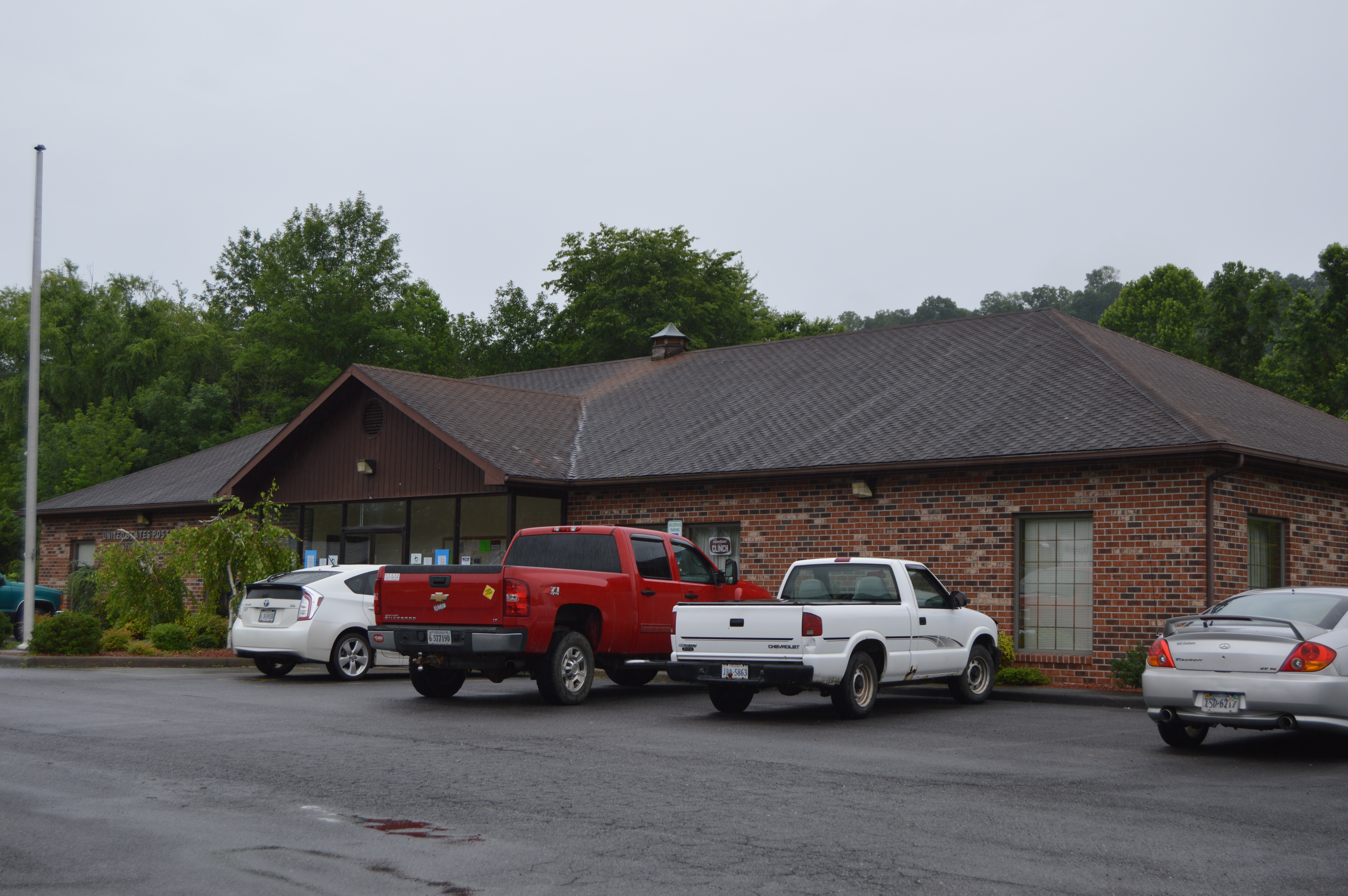 Front of the Dungannon post office and town hall, located on Third Avenue (State Routes 65/72) west of Washington Street in Dungannon, Virginia, United States.